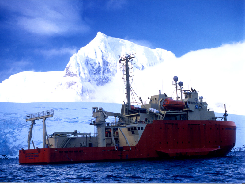 The 230-foot (70-meter) research vessel Laurence M. Gould, named for geology professor Dr. Laurence Gould, was built in 1997 from strengthened steel, which allows her year-round operation in Antarctica.